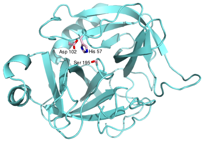 X-ray crystal structure of chymotrypsin, created using PYMOL, active site residues labelled